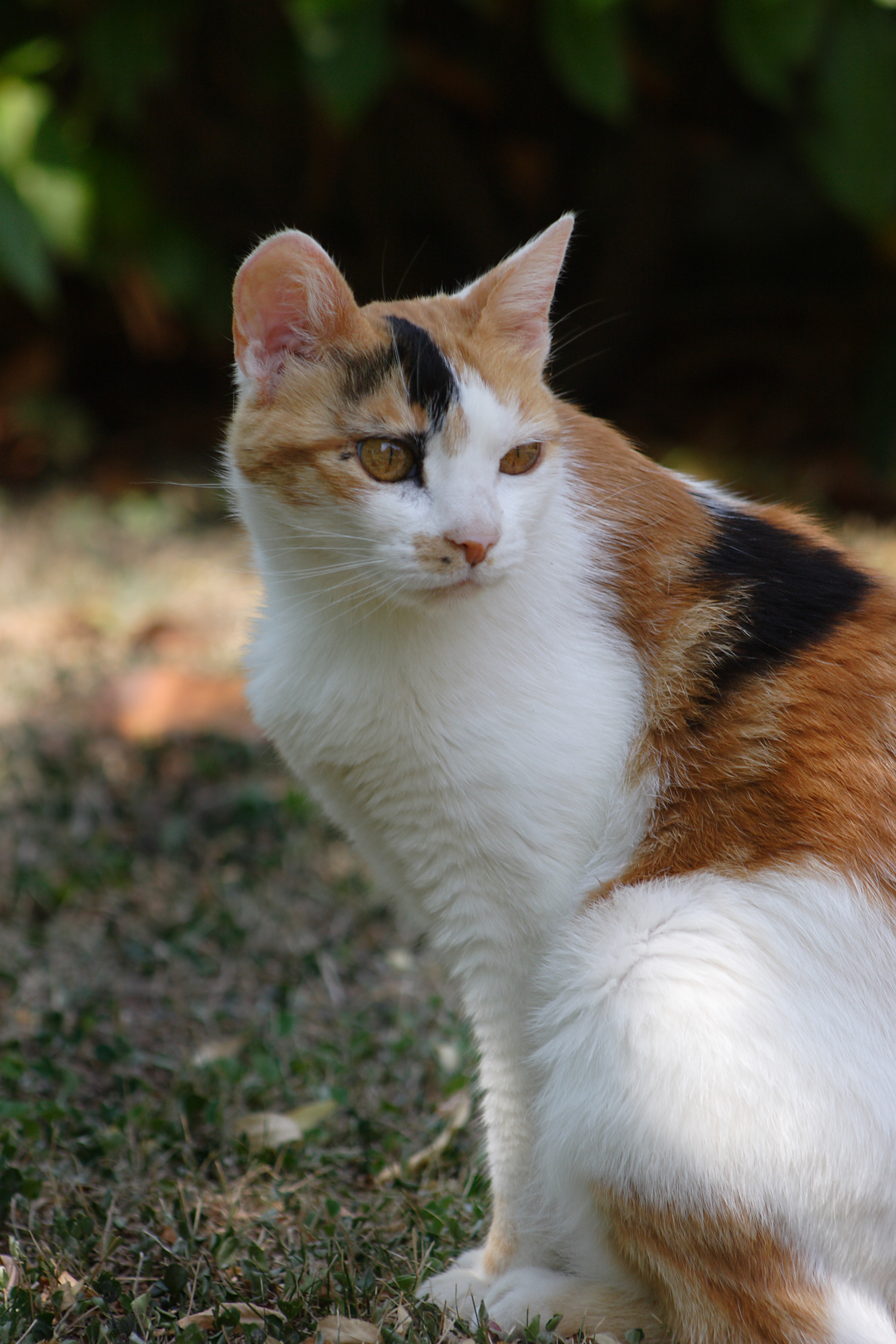 9-year-old female calico cat (Minou), born and raised in the Ligurian Riviera.